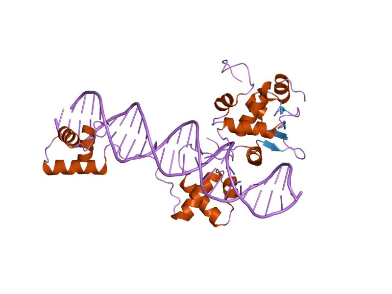 Cartoon representation of the molecular structure of protein registered with 1mdm code.